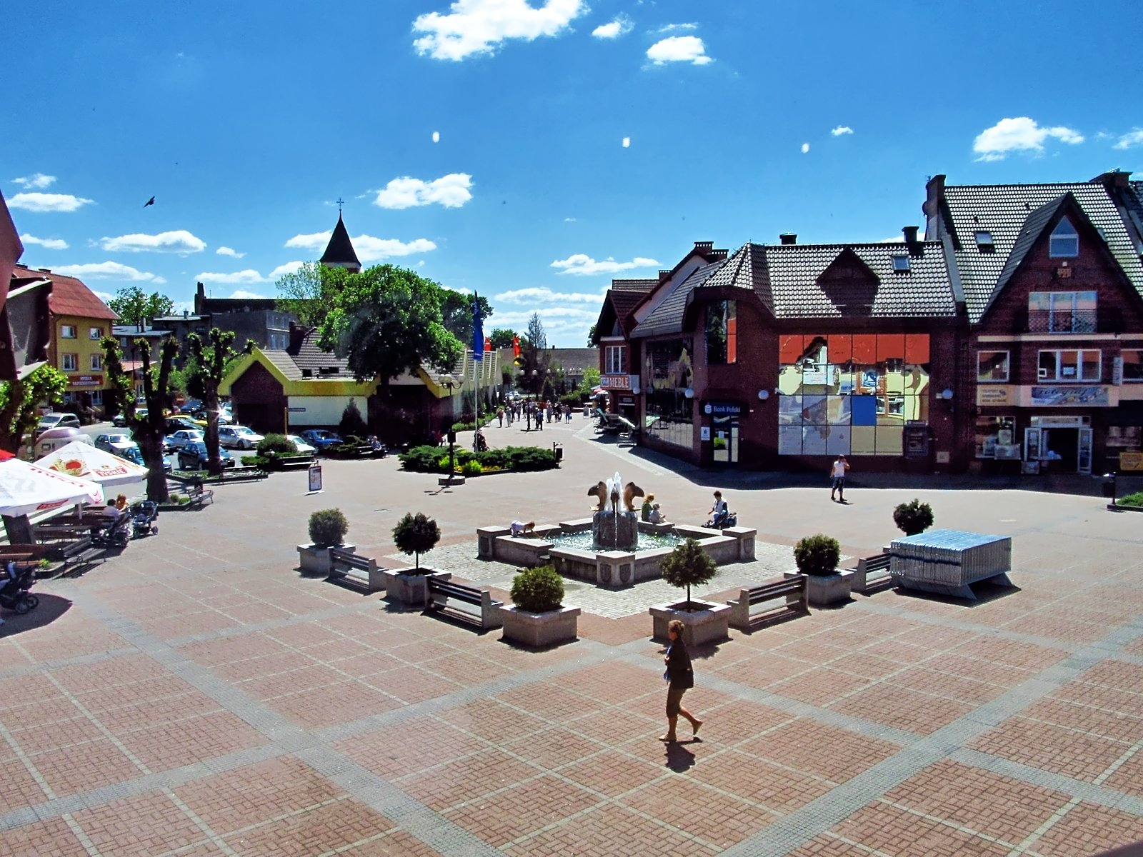 Square - the city showcase